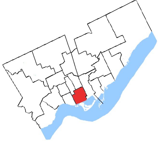 Map of the Spadina electoral district showing its borders from 1966 to 1976. Created by SimonP.